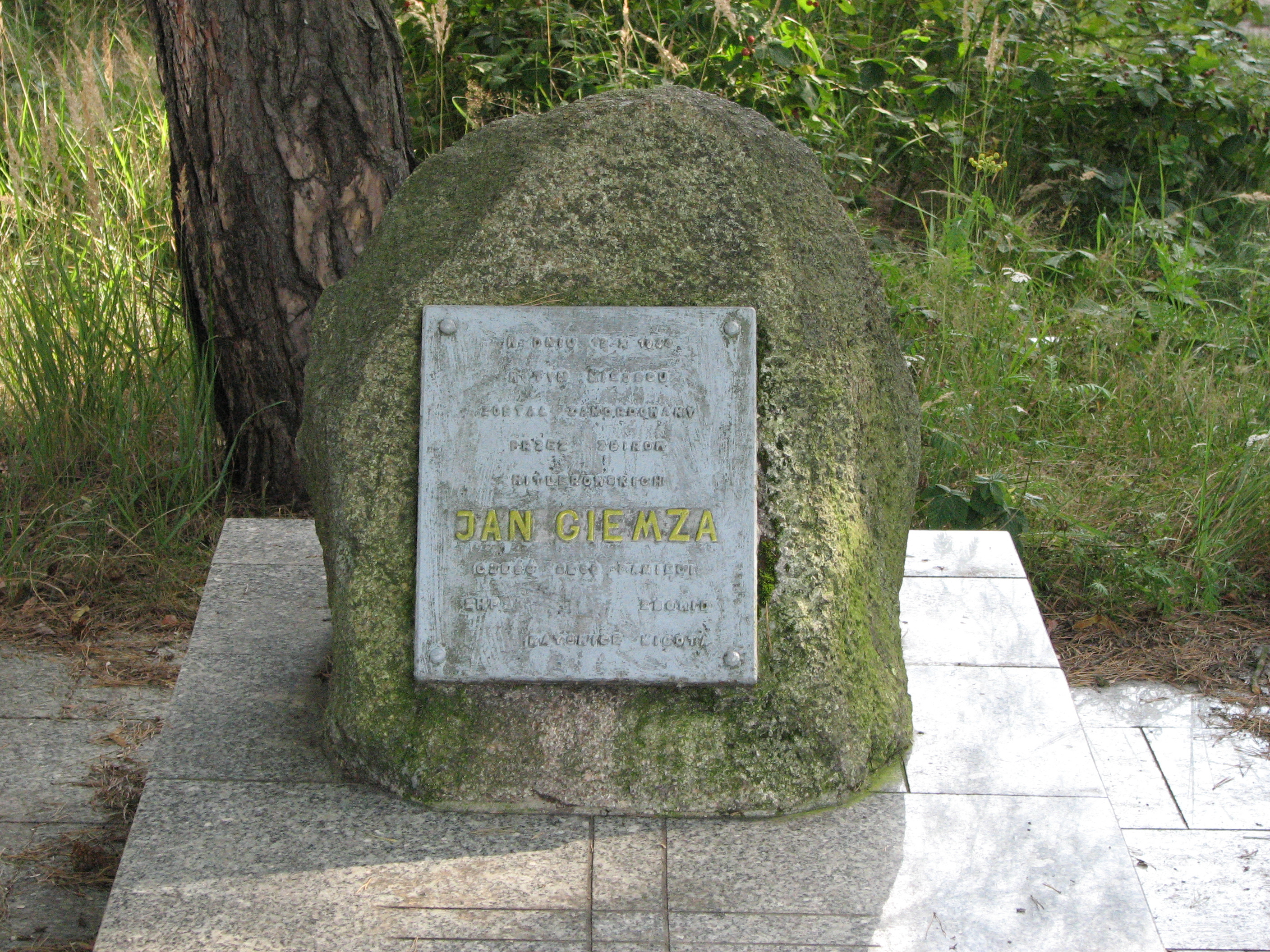 Panewniki's Forests in Katowice, Poland